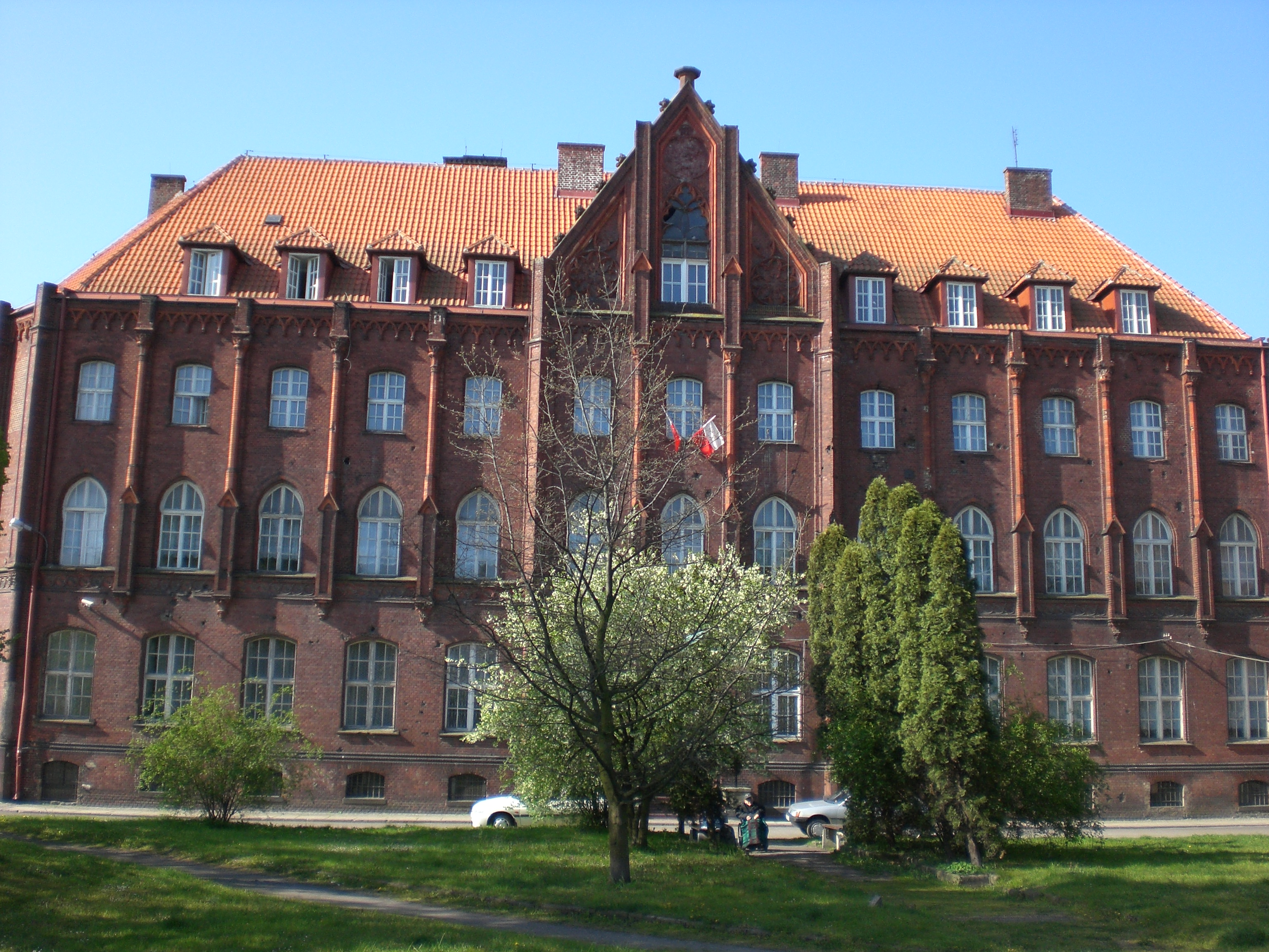 Gdańsk Stare Przedmieście.